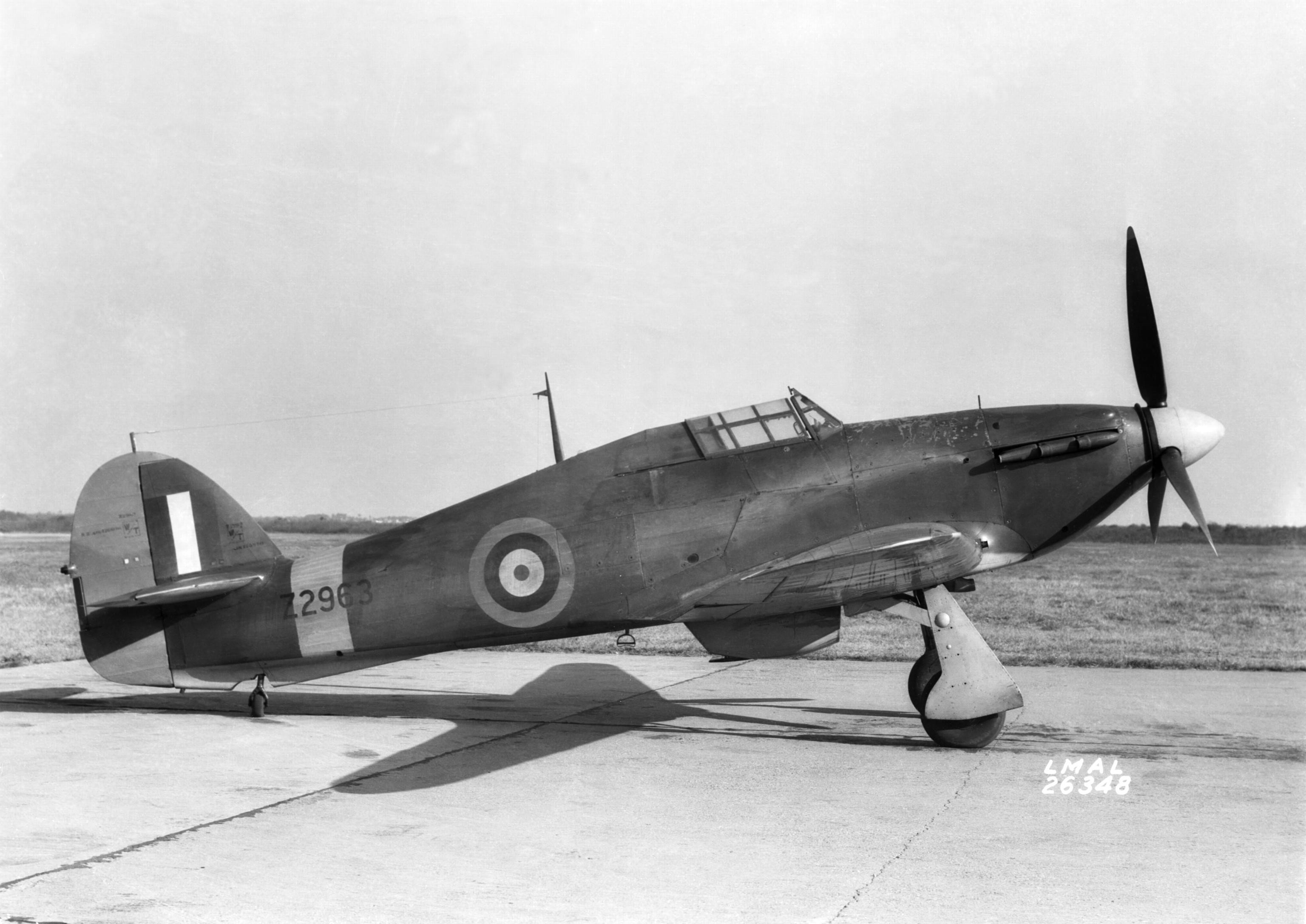 A British Hawker Hurricane IIA (RAF serial Z2963) used for evaluation of stability and flight control at the U.S. National Advisory Committee for Aeronautics (NACA) Langley Research Center, Virginia (USA), on 25 November 1941.